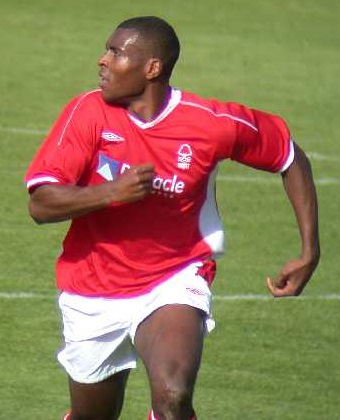 Photo of Wes Morgan taken at Wilford Lane in 2002. Taken with permission from